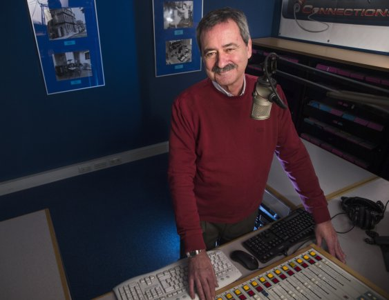 An image of Gary Bautell, an American military radio broadcaster